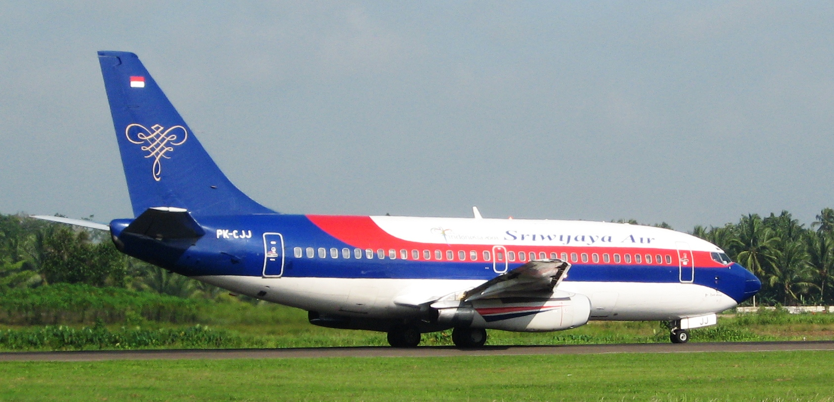 Boeing 737-200 Sriwijaya Air at Supadio Airport, Pontianak